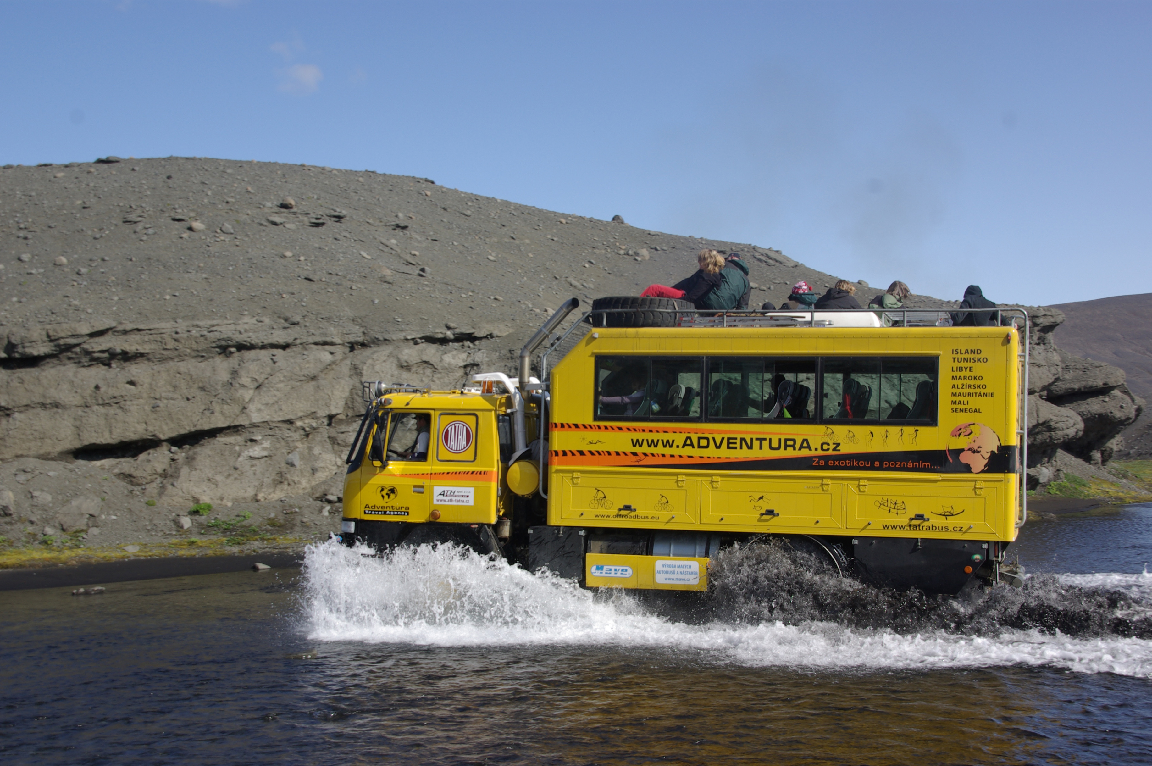 Tatra T815, expedition version of Czech travel agency Adventura, Iceland (registration plate 8A5 0779)